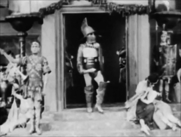 Still from the American drama film Manslaughter (1922)